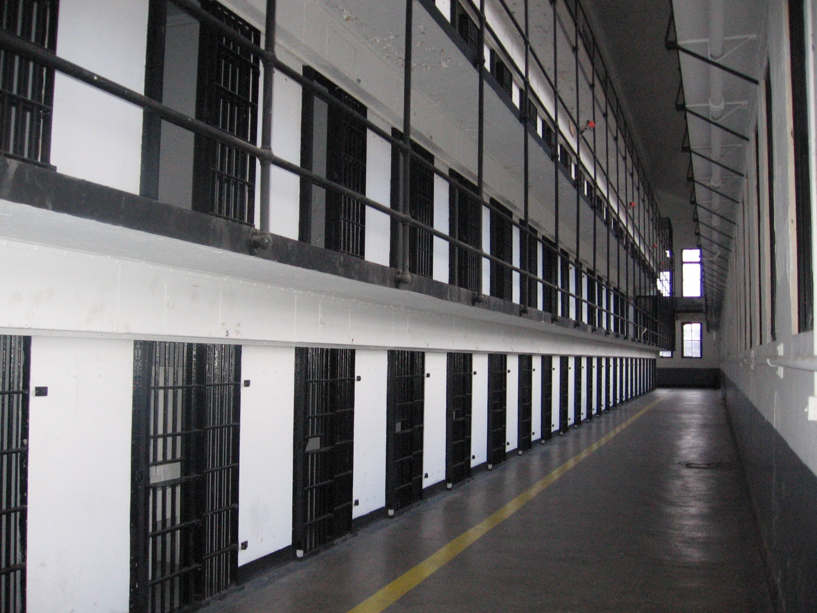 A view of the interior of Cellblock 1 of the Old Montana Prison showing the tiers of cells and the guard catwalk